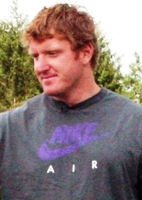 Simon Fraser, a defensive lineman for the Atlanta Falcons, answered questions from participants during a youth football camp June 27 at U.S. Army Garrison Hohenfels, Germany. Fraser was on vacation with his family near Frankfurt, Germany, and volunteered to drive to Hohenfels to spend time with the young players.